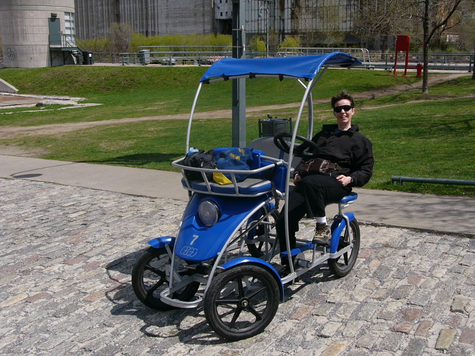 A Quadricycle International Quad-3 at the Old Montreal Docks, Montreal, Quebec, Canada.